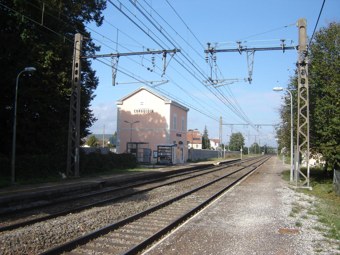 Train station in Corgoloin, Burgundy, France